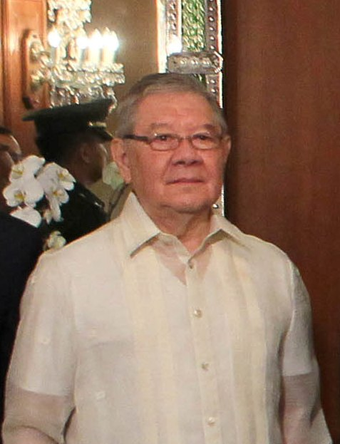 Philippine House Speaker Feliciano Belmonte (2001; 2010-present)